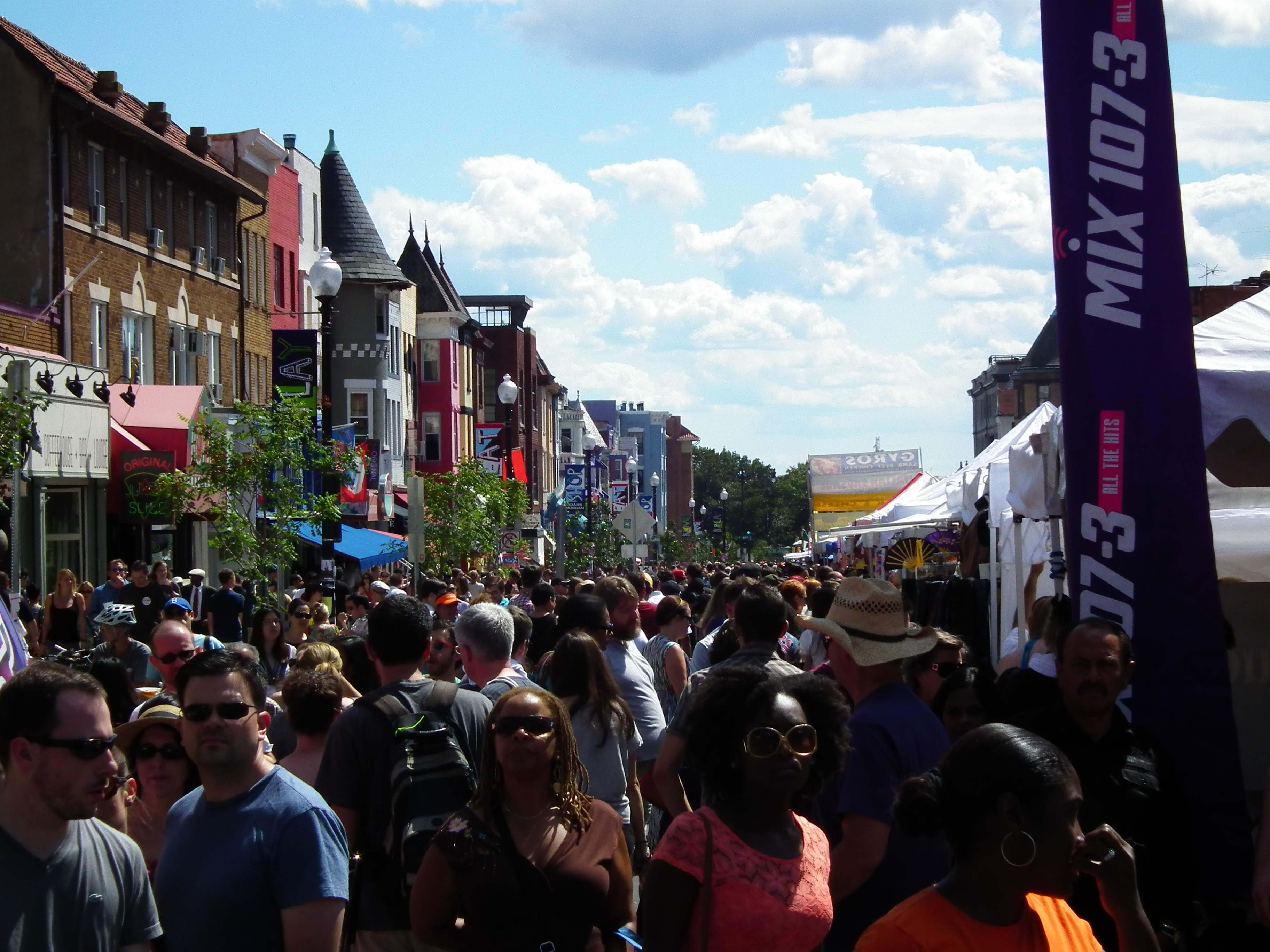 Adams Morgan day Festival 2012